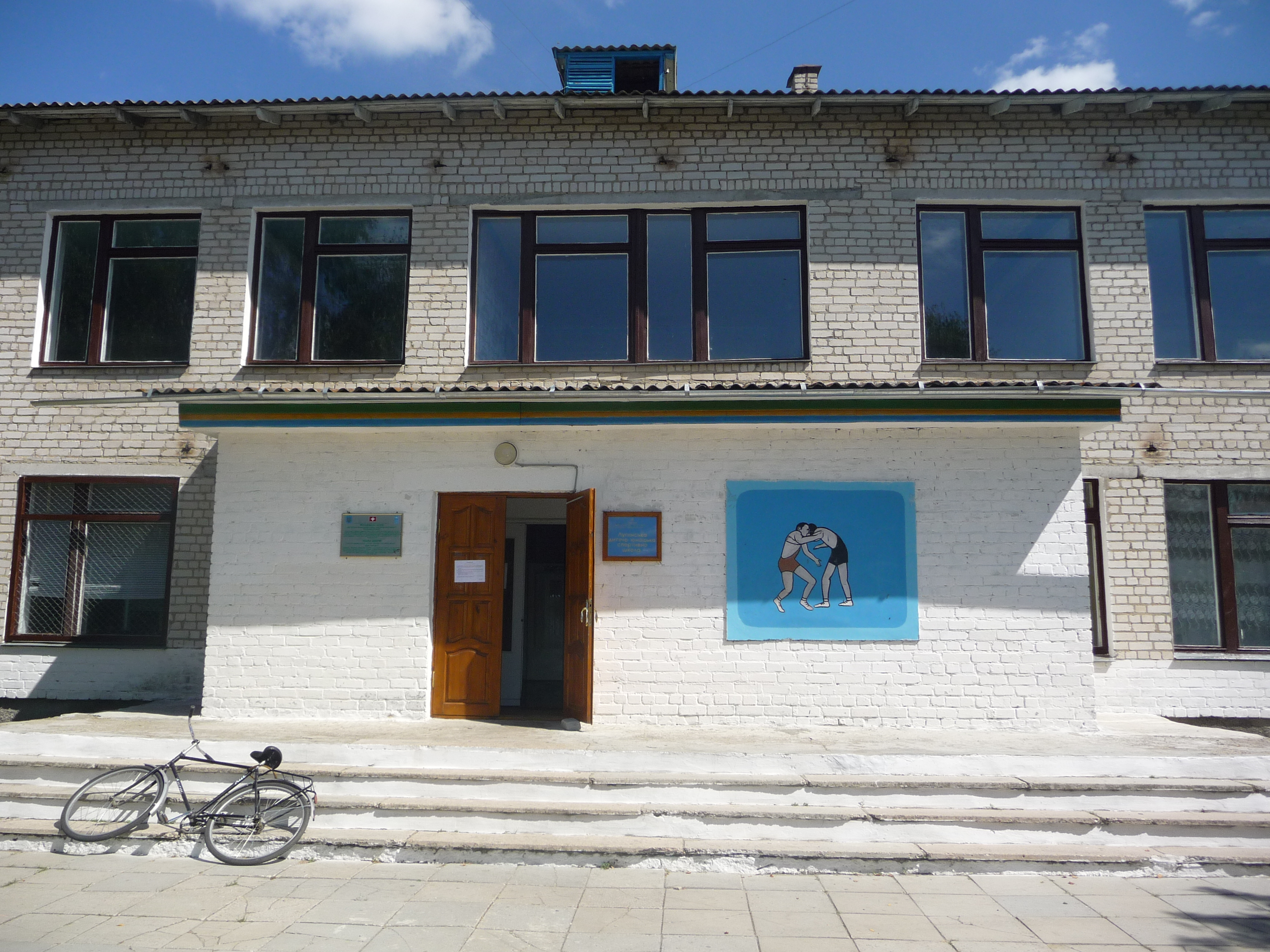 Front vieq of Lugyny Youth Centre